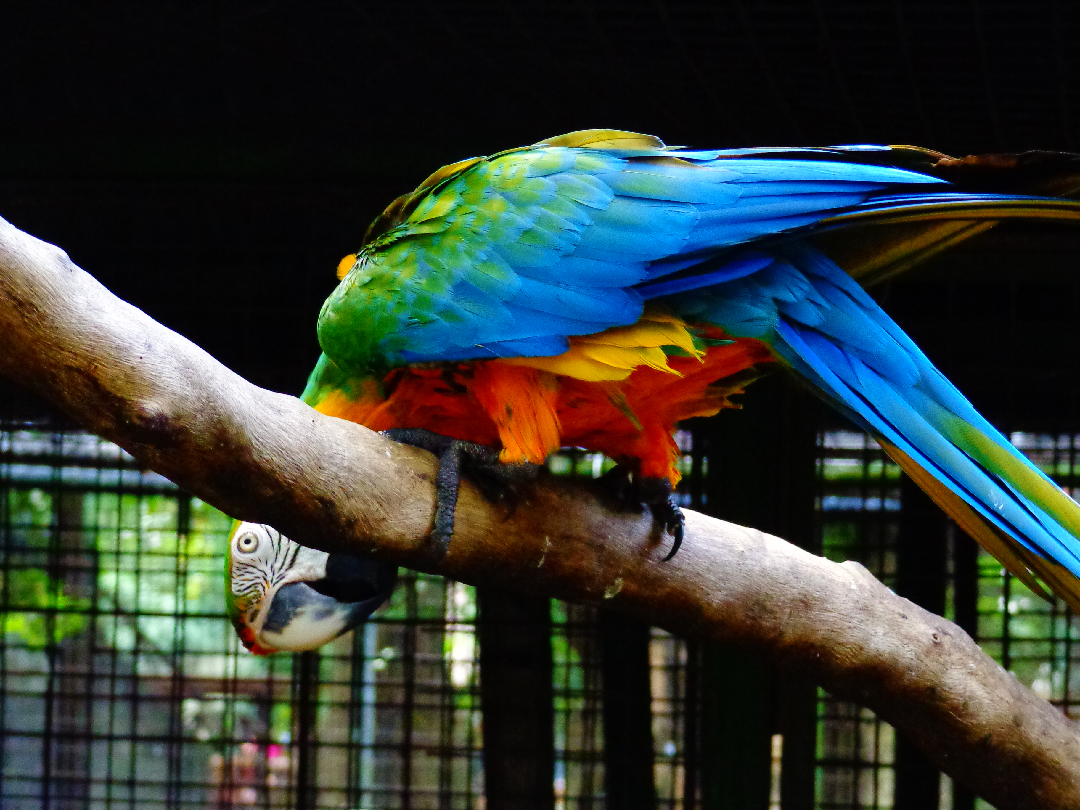 An amateur photograph I took when I went to the zoo after having my new camera. Slight editing in adobe photoshop, which includes resizing as original image is 10MP and is too big, and increasing the vividness. I originally uploaded a smaller version of this locally on wikipedia, then a user called Sfan00 IMG told me to upload the image on commons as it's quite a nice one.